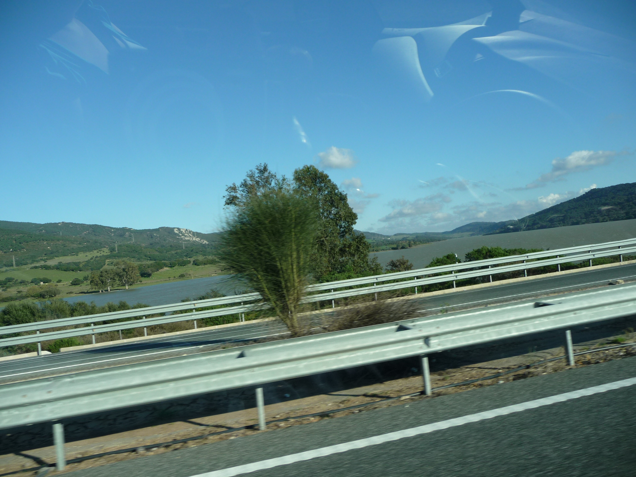 Embalse (man-made-lake) del Charco Redondo (Spain) from A-381 road